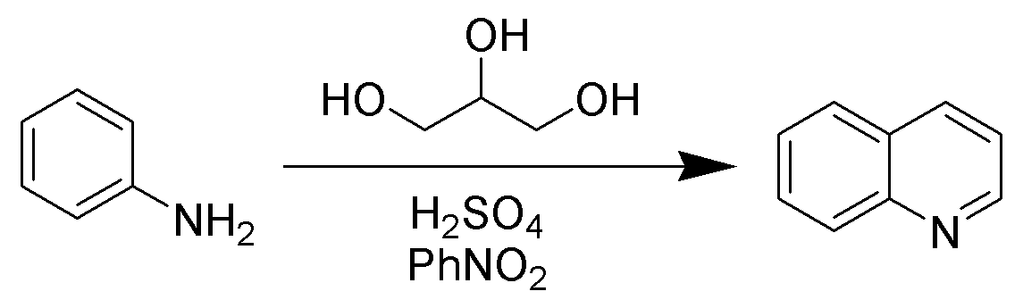 Description: Reaction scheme of the Skraup reaction. Author, date of creation: selfmade by ~K, 19 February 2006. Source: - Copyright: Public domain. (PD) Comments: high-resolution b/w PNG; ChemDraw / The GIMP.